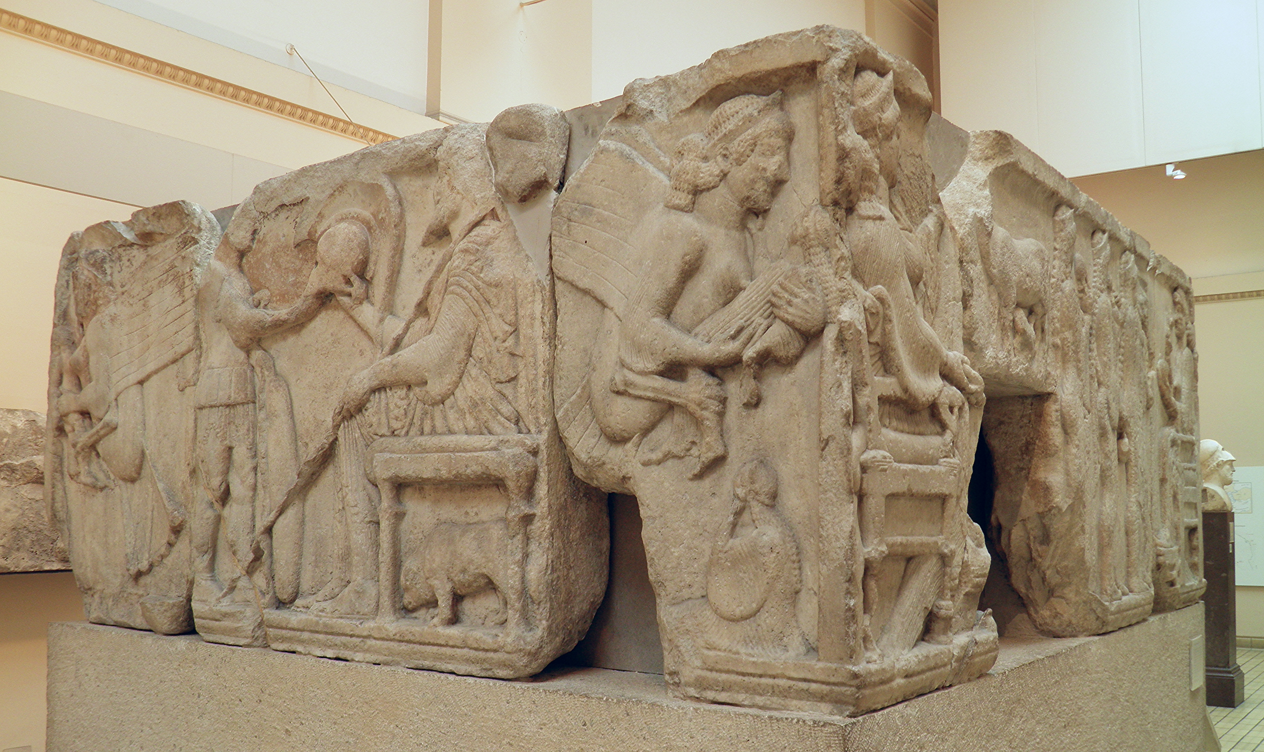 The Harpy Tomb reliefs, about 480 BC, Xanthos, British Museum, London